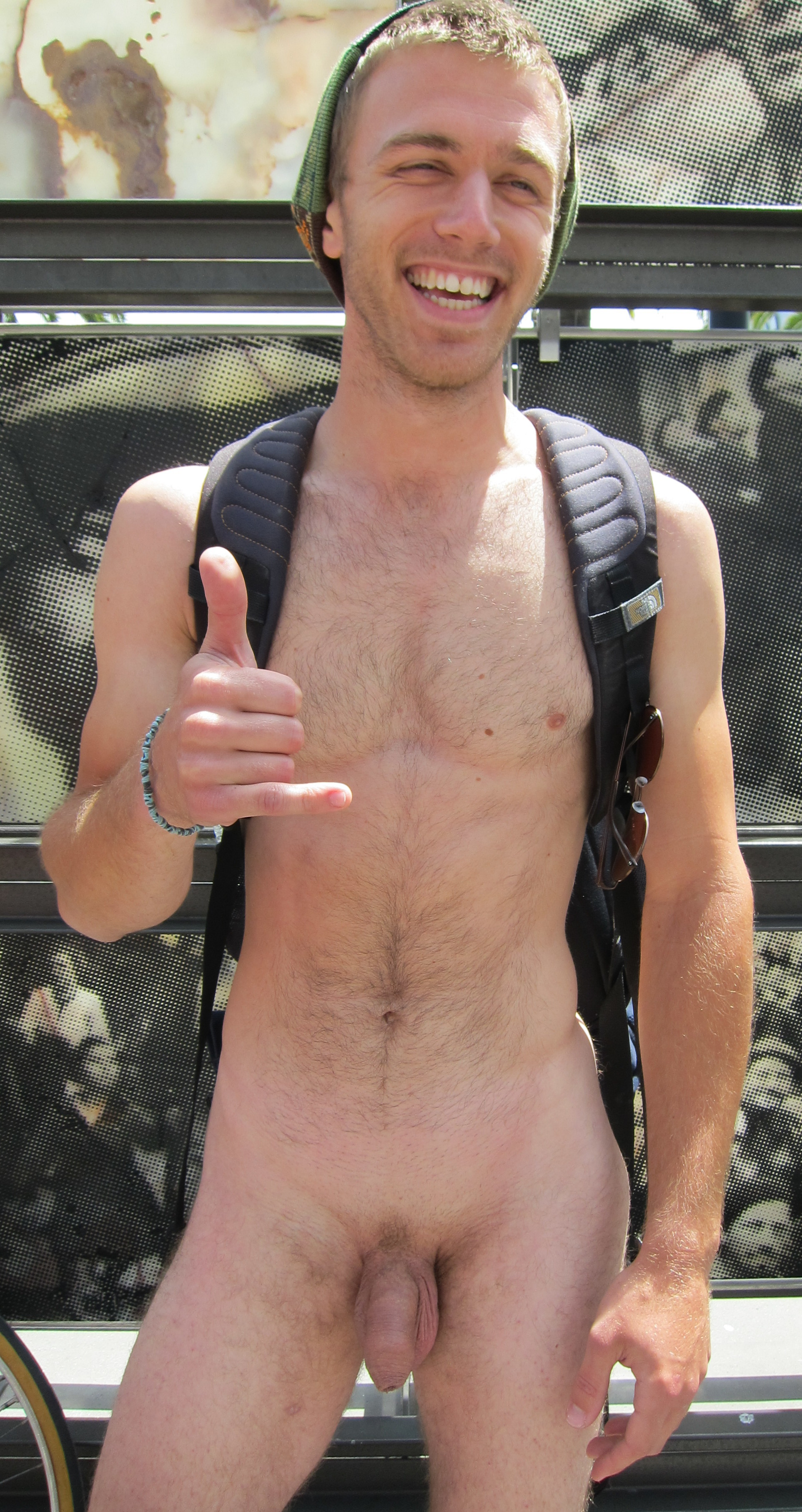 A participant in the World Naked Bike Ride in San Francisco, June 2011